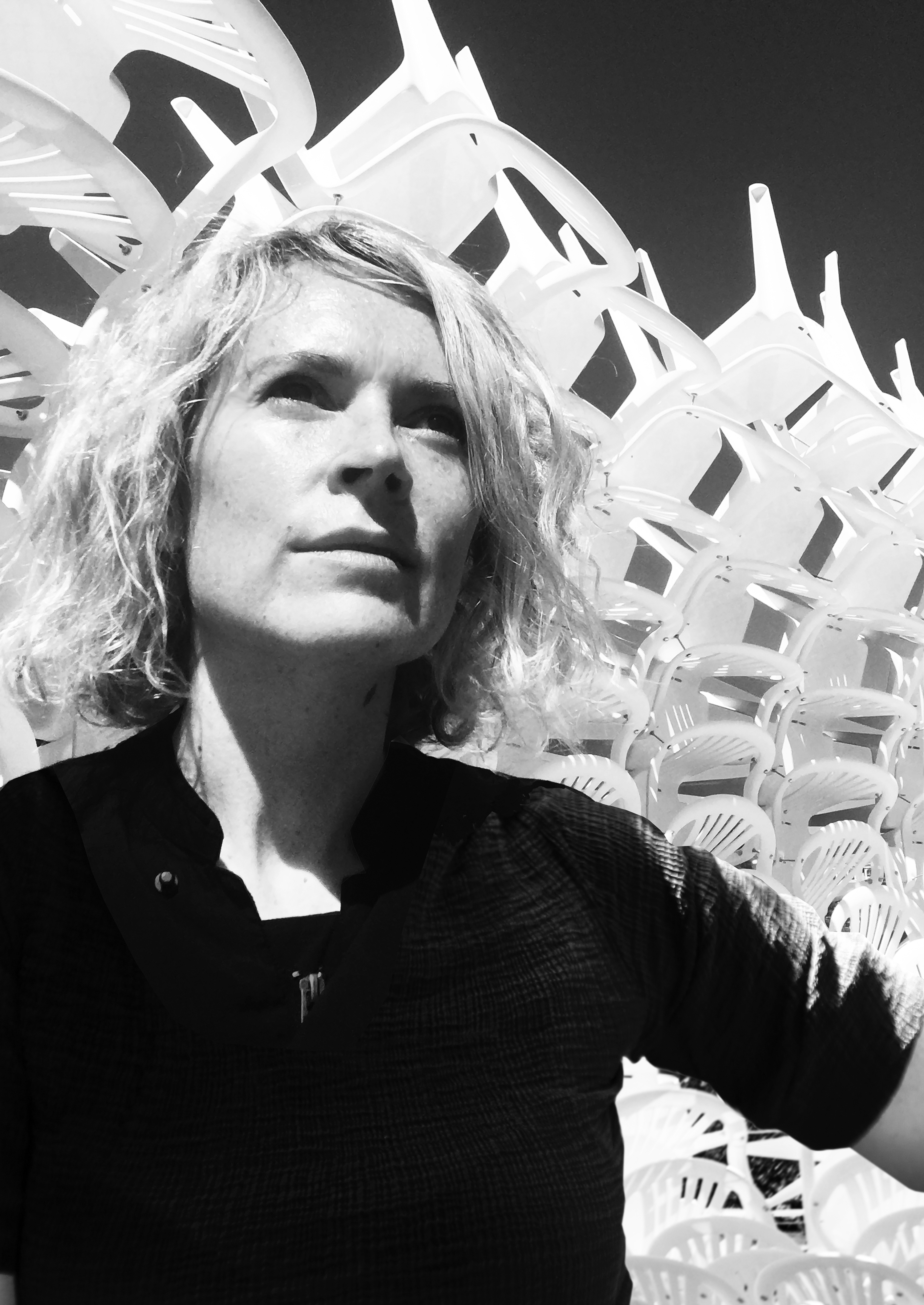 Caroline O'Donnell in front of Urchin (2016)